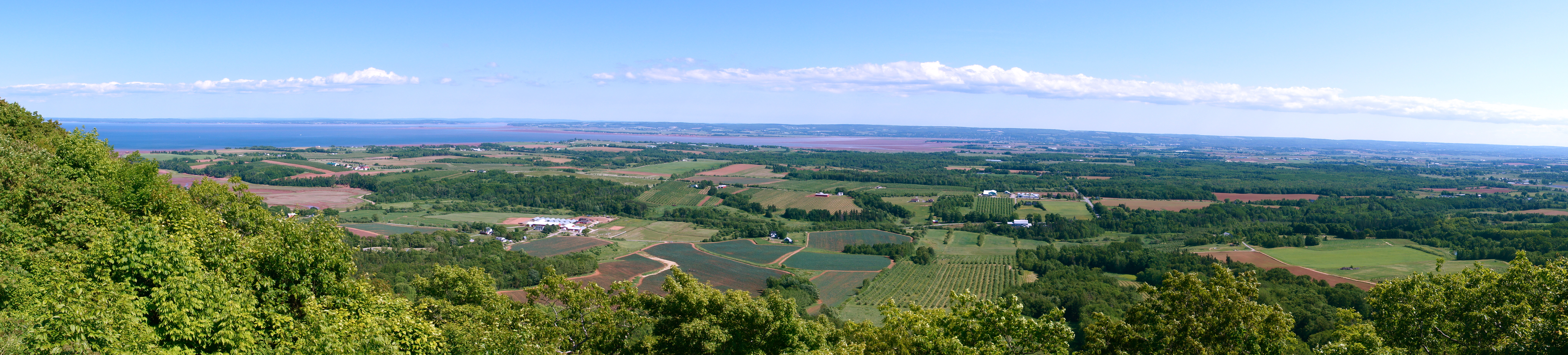 Looking east, southeast across the Annapolis Valley from the area known as the "The Lookoff", North Mountain, Nova Scotia, Canada